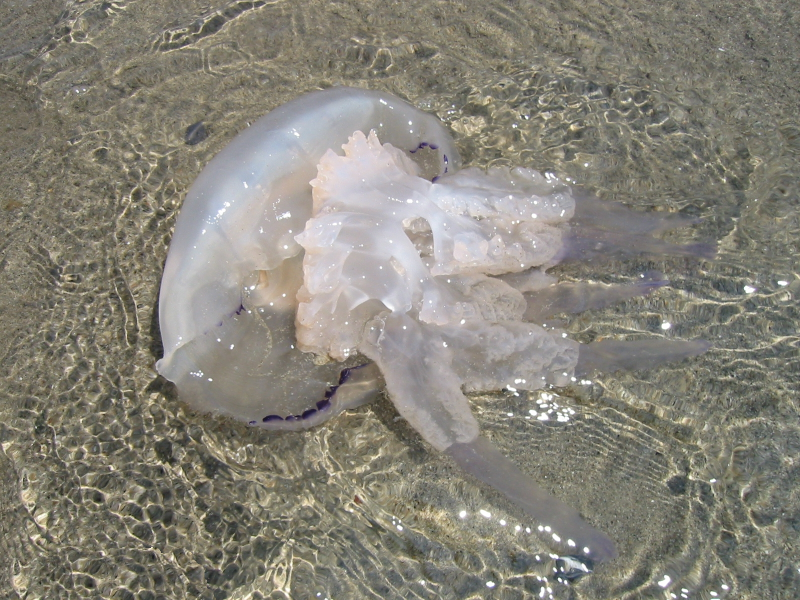 Jellyfish washed ashore at the ionian coast in Italy